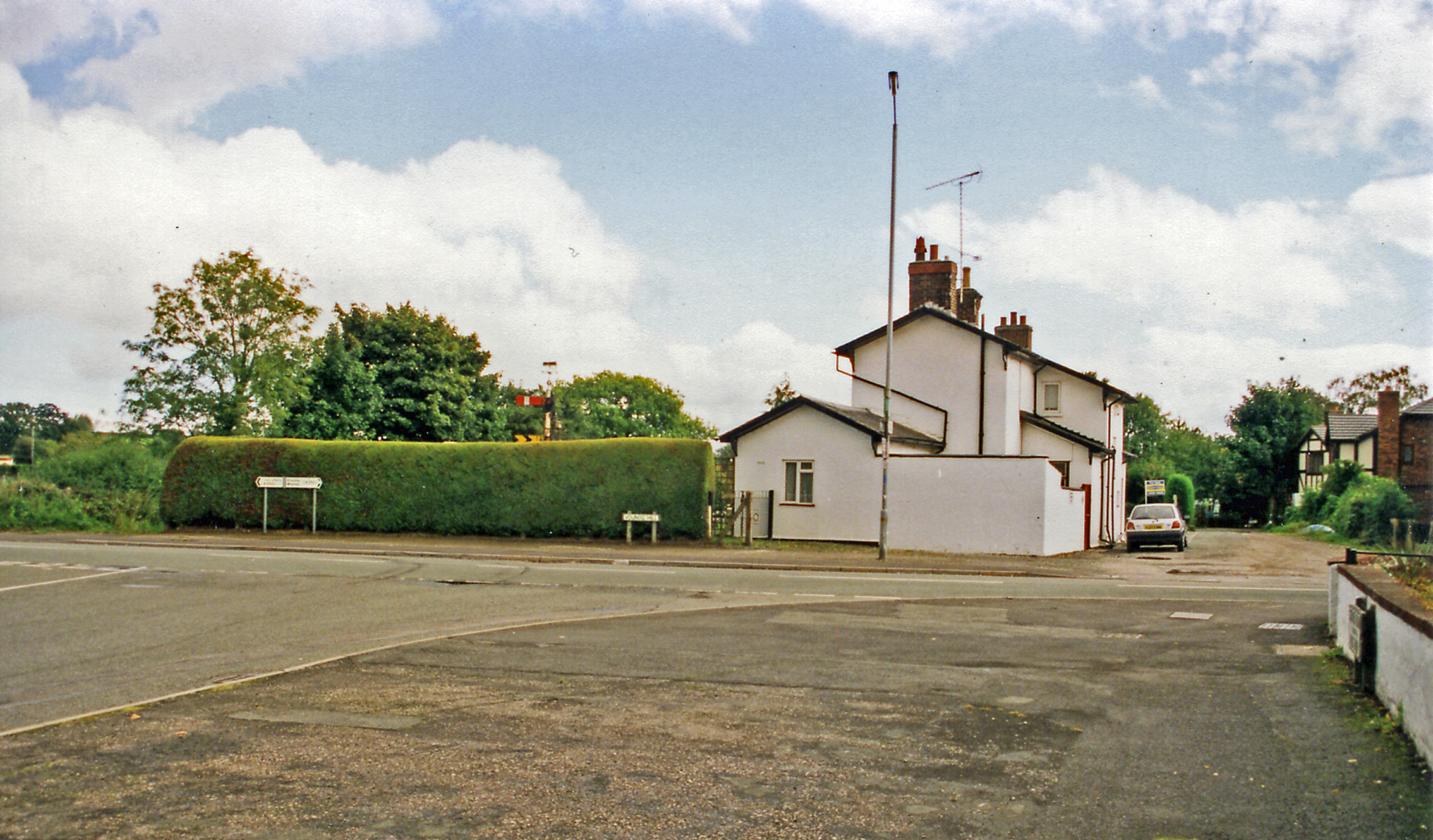 Former Hope & Pen-y-Fford station, 1999. View eastward on Vounog Hill, Pen-y-Fford, towards Saltney Junction and Chester: ex-LNW Chester - Mold - Denbigh line, closed 30/4/62. Note the signals in the garden.